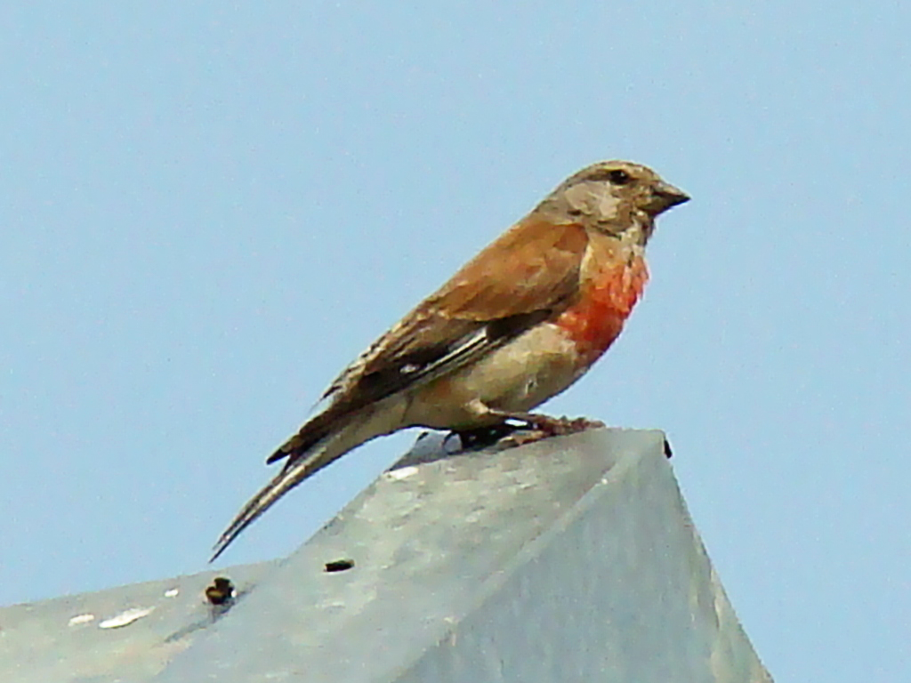 Photo of the Linnet ( Carduelis cannabina ) in Šiauliai, Raizgiai, Lithuania.